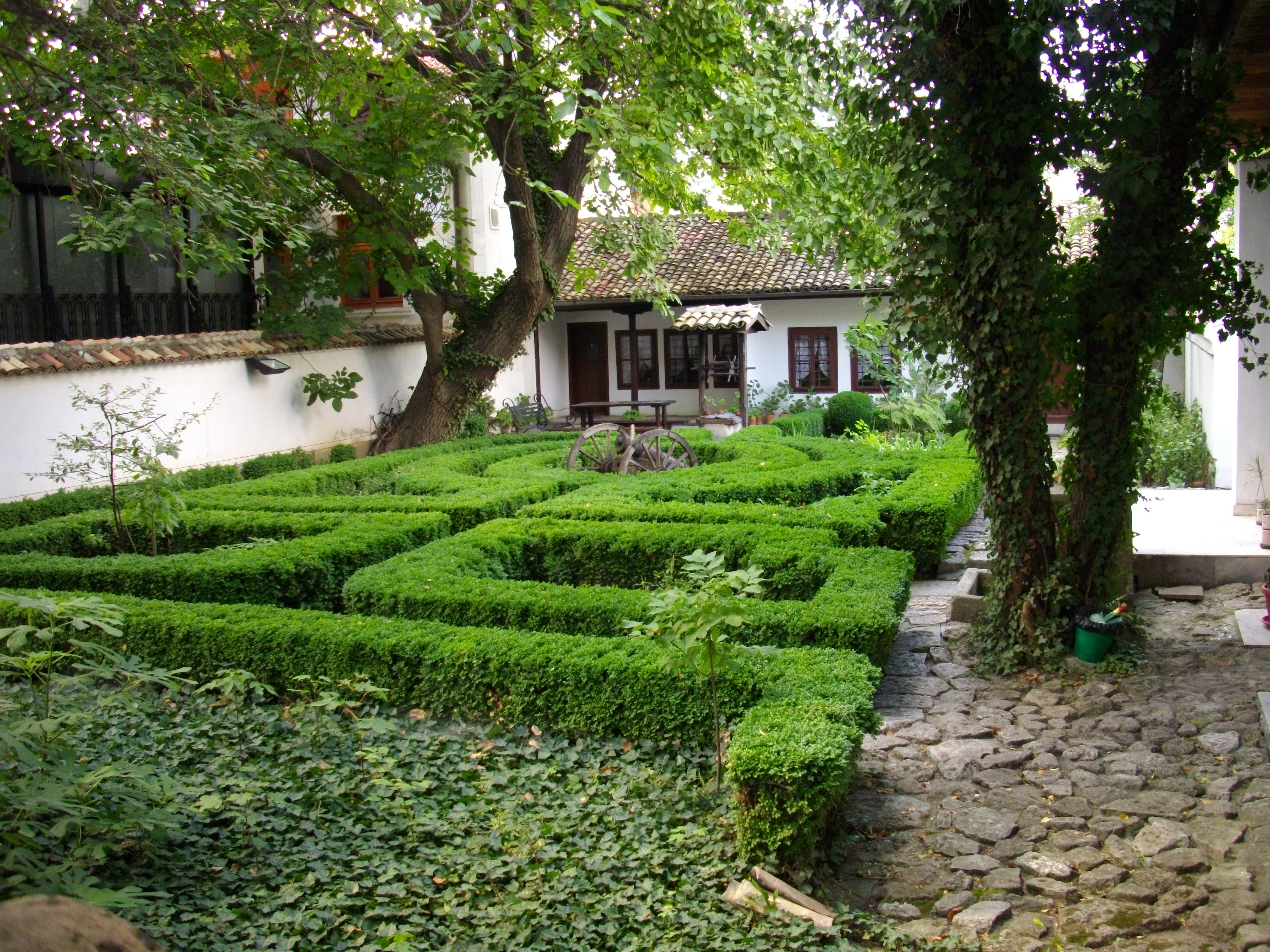 Къща-музей "Панайот Волов"